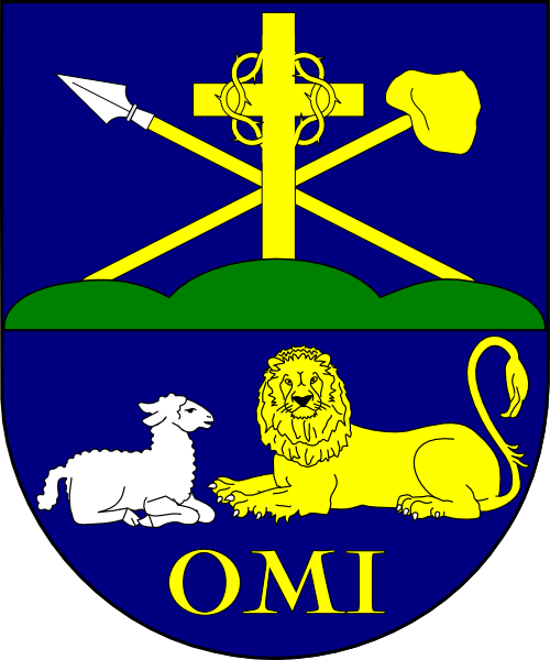 Coat of arms (shield only) of Joseph cardinal Guibert, bishop of Viviers (1841 - 1857), archbishop of Tours (1857 - 1871), archbishop of Paris (1871 - 1886).